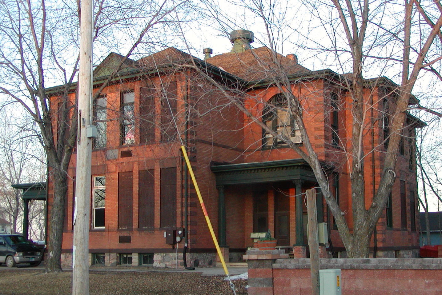 This building was the Montrose School.